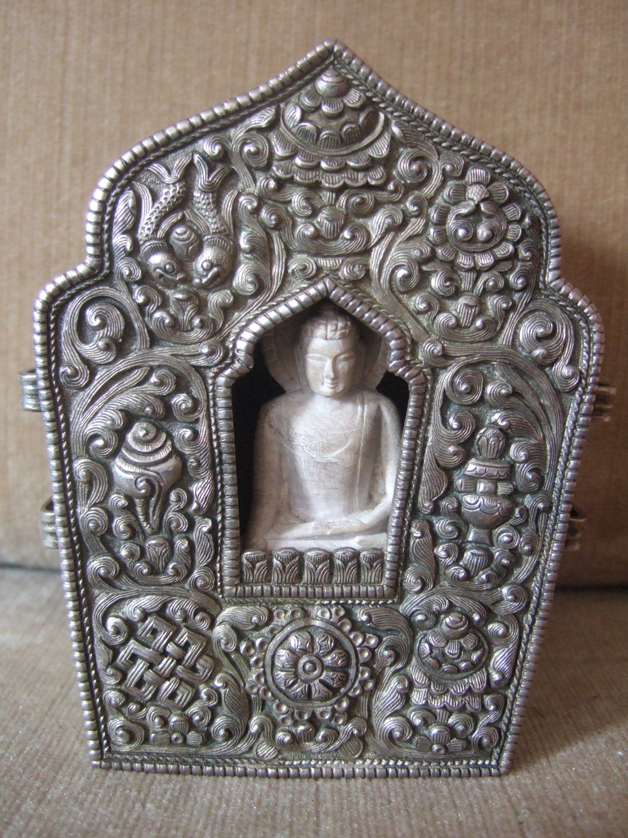 Tibetan gau (portable amulett-container), early 20th century with stone figurine of Buddha from Northern India